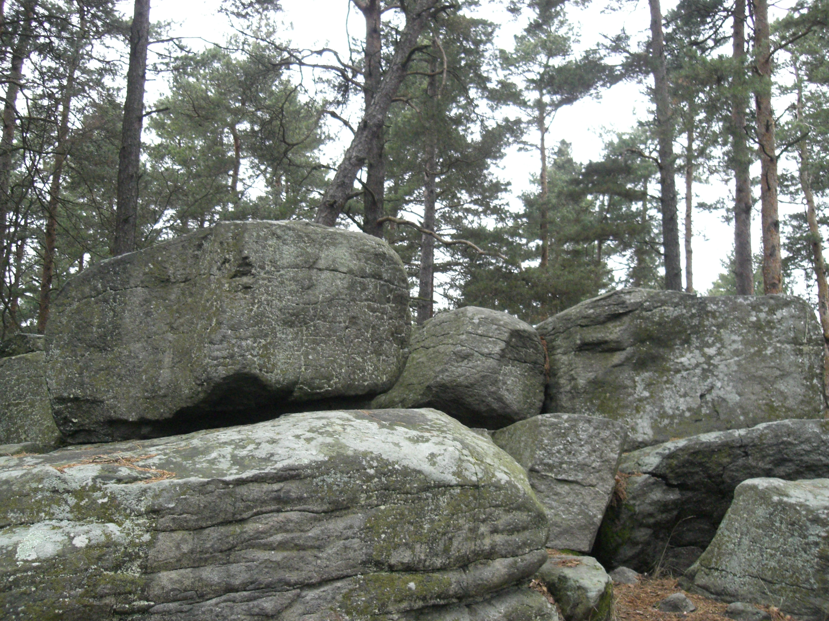 Rock formation called Boží kámen near Tažovice village, part of Volenice village in Strakonice District, Czech Republic